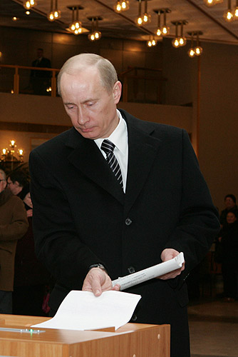 POLLING STATION NO. 2074, MOSCOW. Voting in the Russian presidential election.